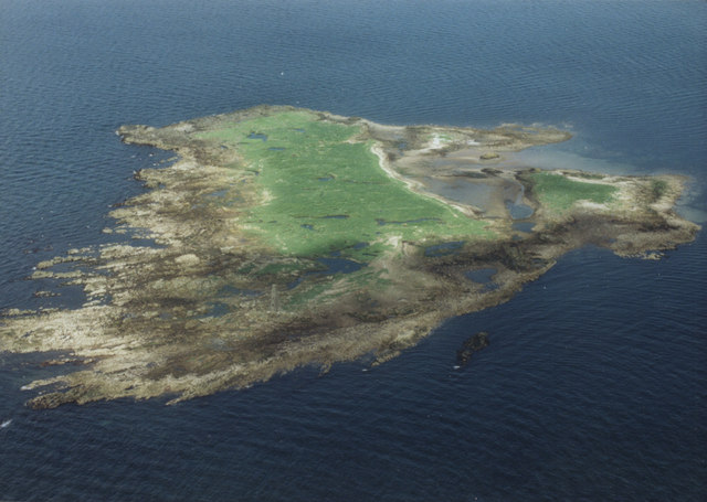 Horse Island. Aerial view of Horse Island from the south. Beacon is just visible near the bottom of the picture. Horse Island is an RSPB reserve, with nationally important breeding numbers of Herring and Lesser Black Backed Gulls, and Eiders.